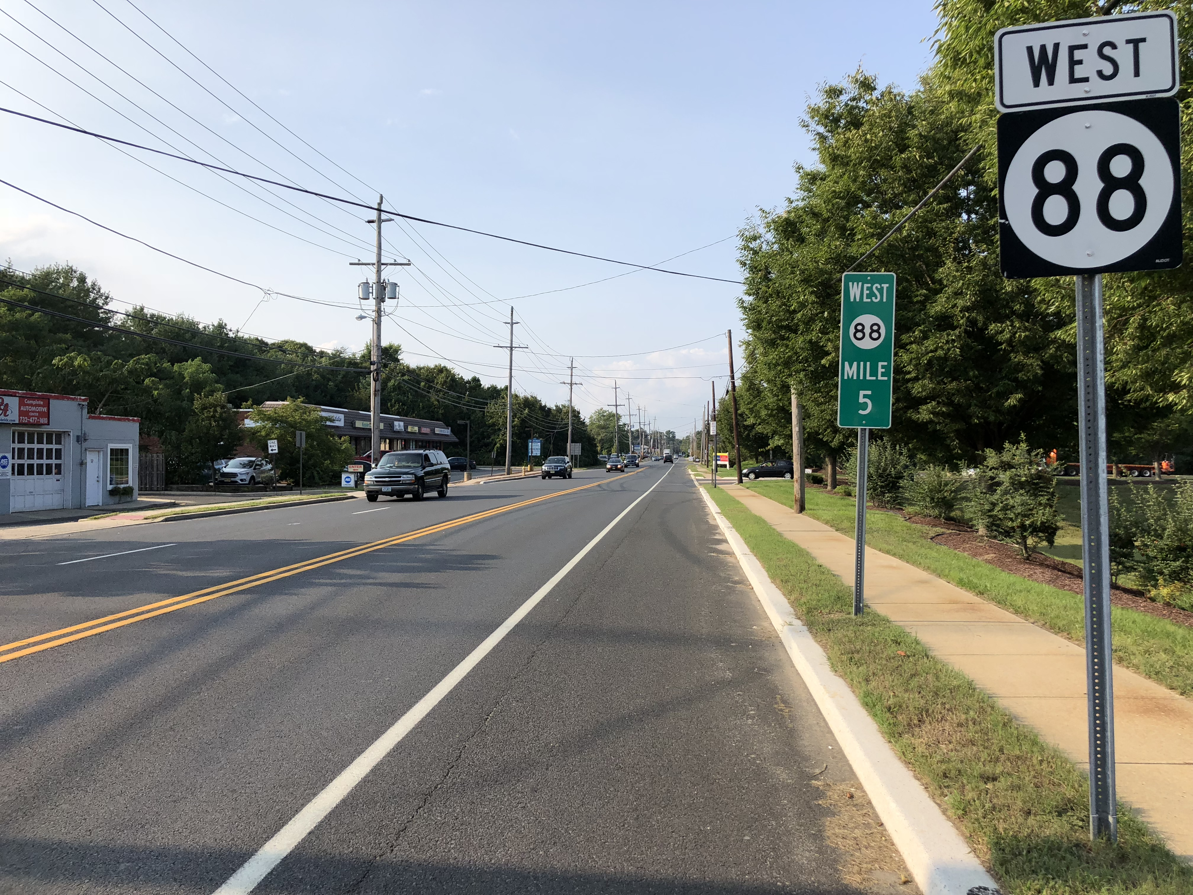 View west along New Jersey State Route 88 (Ocean Avenue) just west of Ocean County Route 40 (Olden Street) in Brick Township, Ocean County, New Jersey